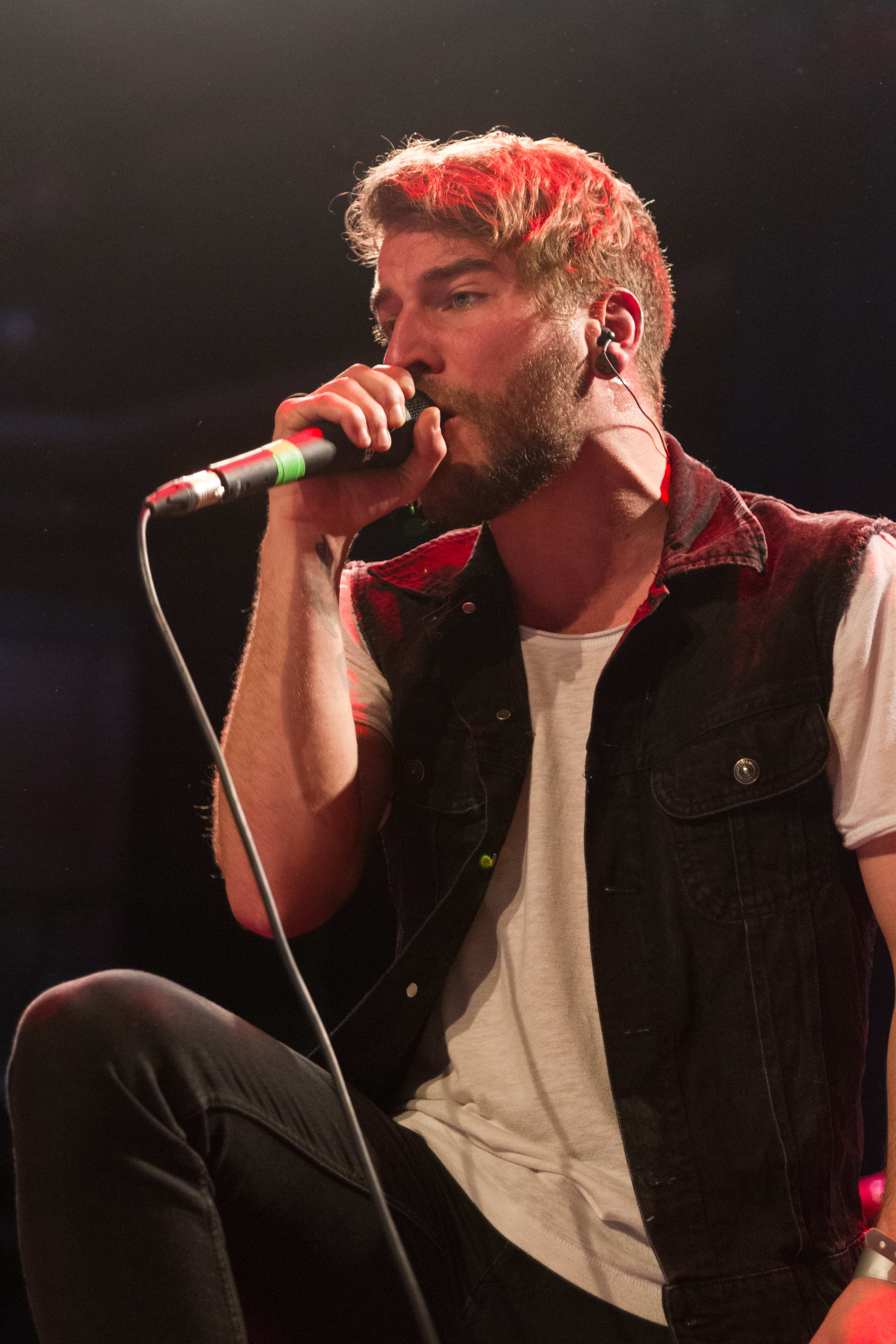 To the Rats and Wolves - Schüler Rockfestival 2015